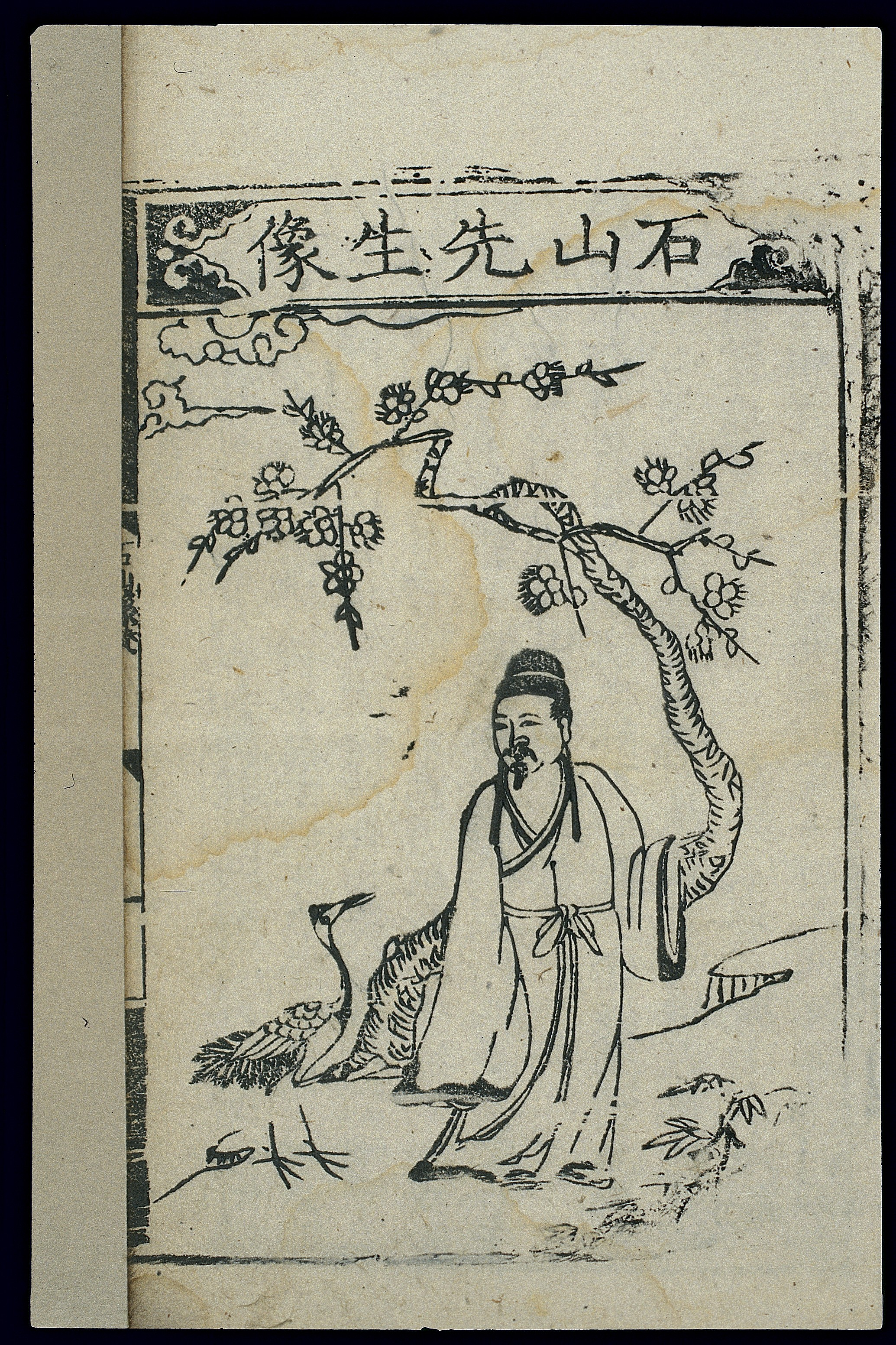 Full-length portrait of the famous Ming physician Wang Ji (1463-1539), known as the Master of the Stone Mountain (Shishan xiansheng). A little about him here Woodcut illustration from Wang Ji'sWaike lili (Patterns and Examples for External Medicine), published in the Jiajing reign period of the Ming dynasty (1522-1566). Wellcome Images Keywords: Medicine, Chinese Traditional; Portraits as Topic